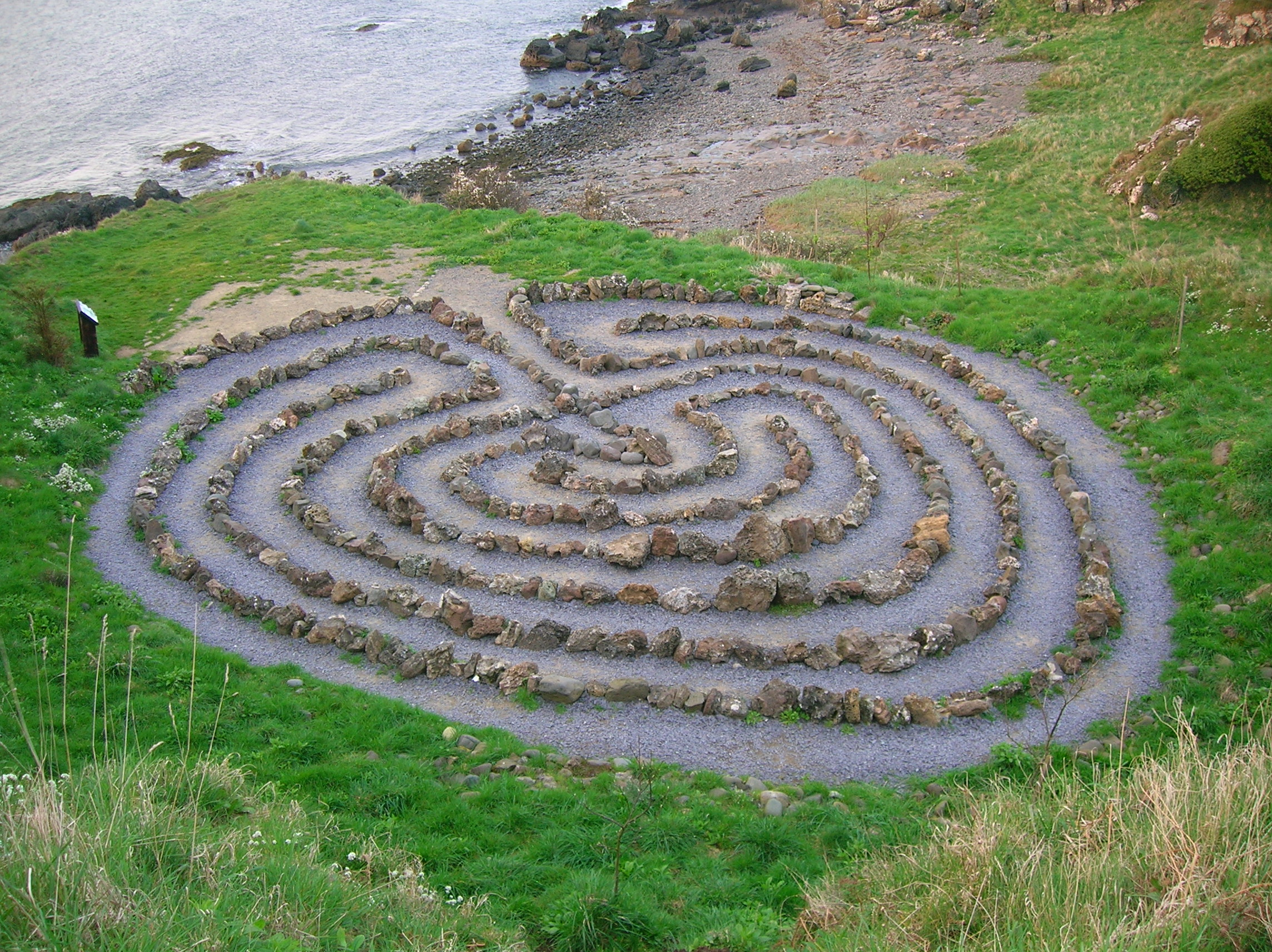 The Dunure labyrinth dating from 2009-10. South Ayrshire, Scotland.